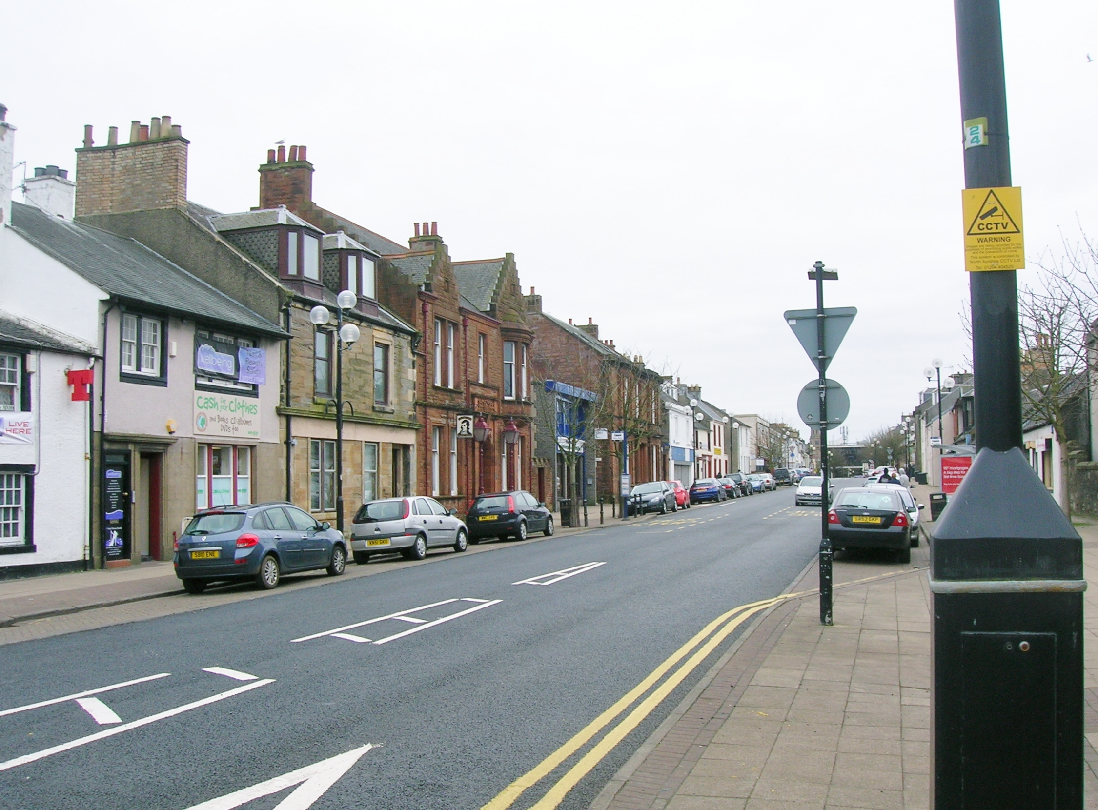 Wellwood House, Irvine Burns Club, Eglinton Road, North Ayrshire, Scotland